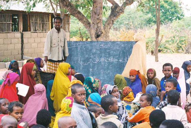 Original caption states "An outdoor school at the Dadaab Somali refugee camp in Kenya."